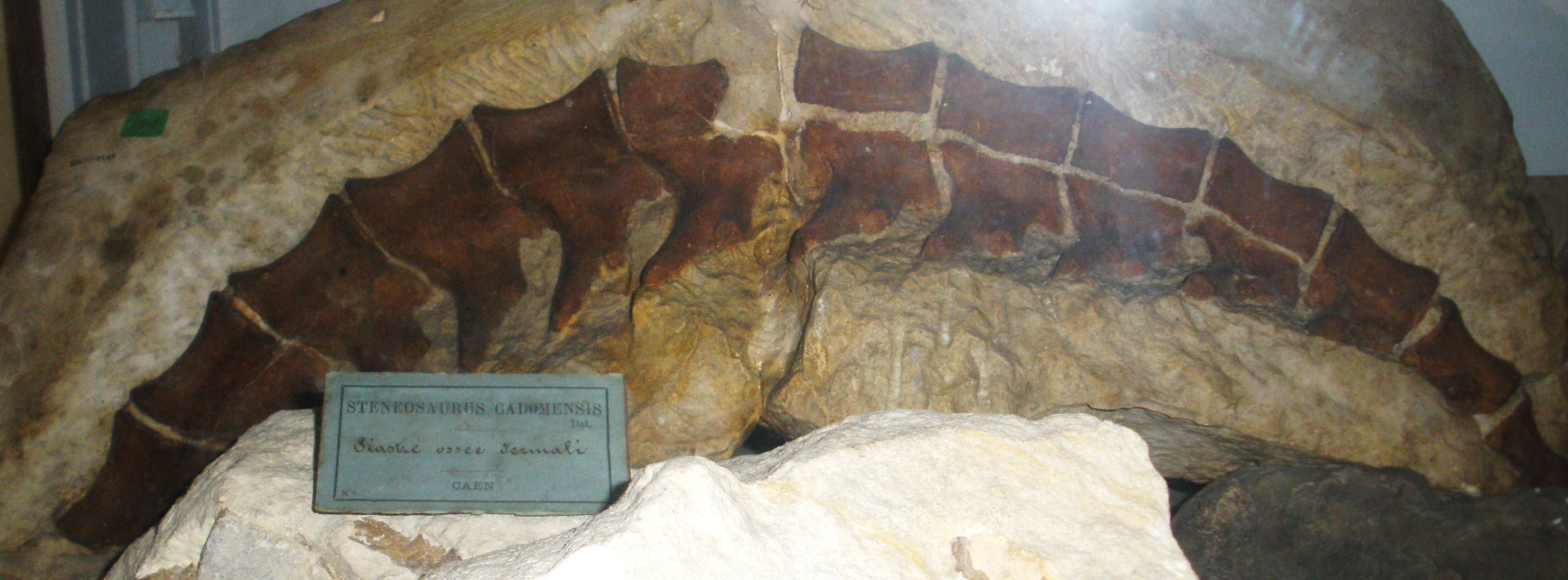 Fossil of Teleosaurus cadomensis, an extinct crocodile